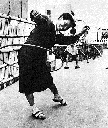 Hula hooping in Japan circa 1958